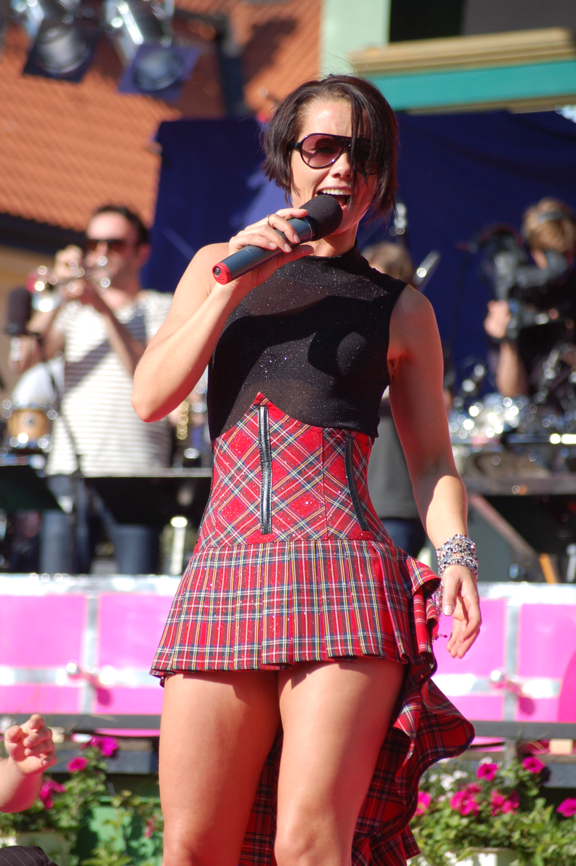 Linda Bengzing on Sommarkrysset at Gröna Lund in Sweden, Stockholm